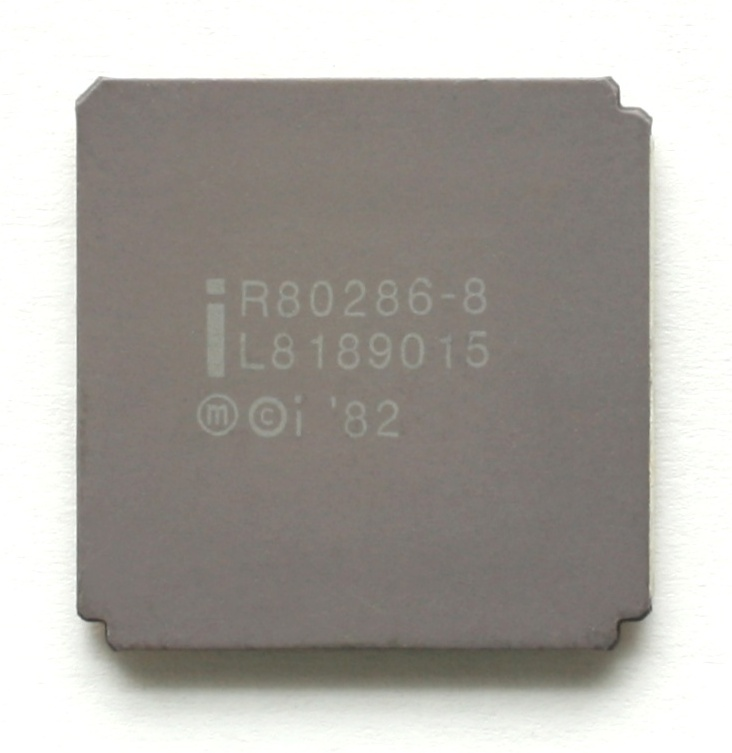 CPU Intel 80286, CLCC, top view.